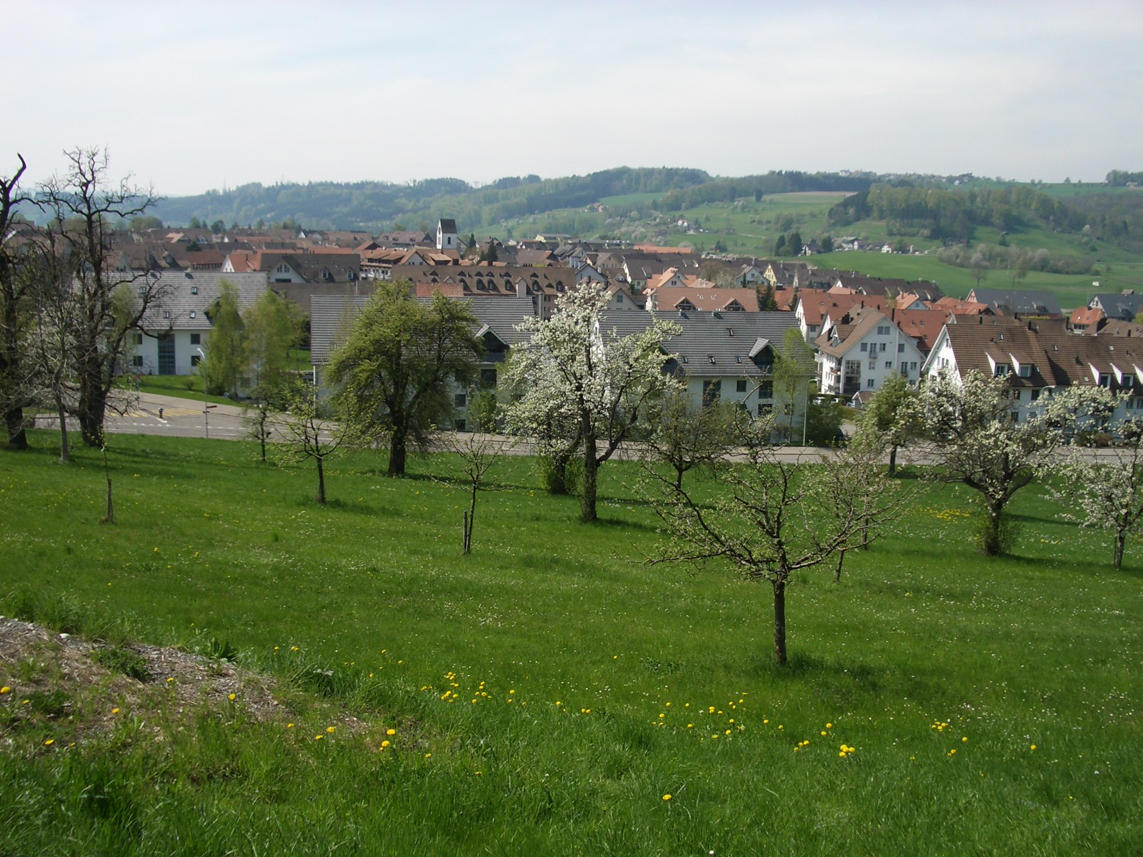 Bonstetten ZH, Switzerland